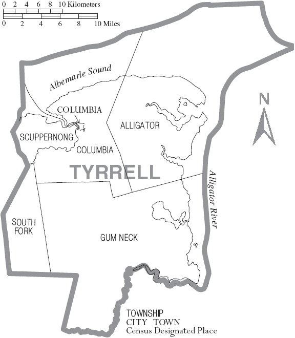 Map of Tyrrell County, North Carolina, United States with township and municipal boundaries